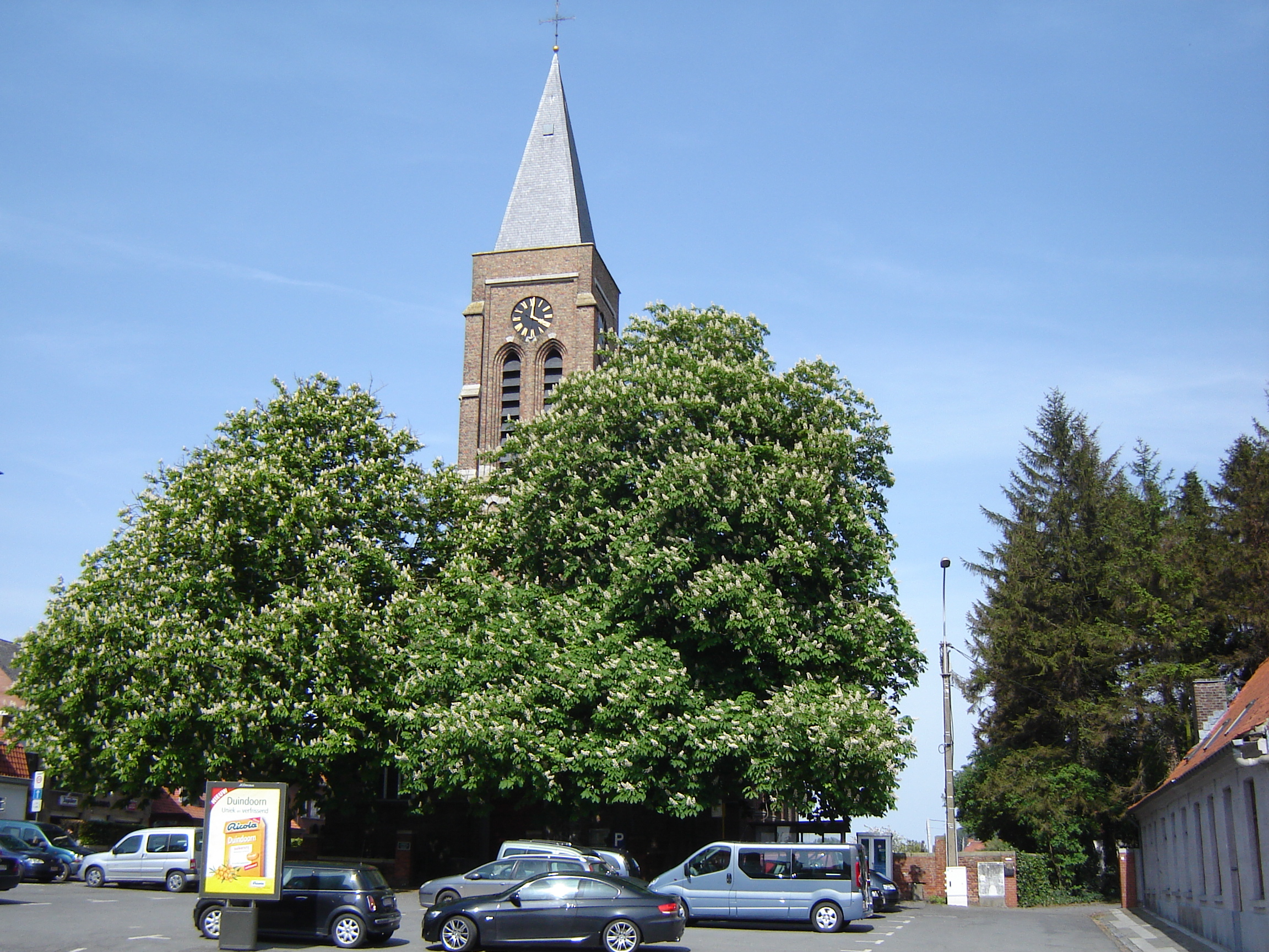 Church of Saint Lawrence at the Kooigemplaats market square in Kooigem. Kooigem, Kortrijk, West Flanders, Belgium